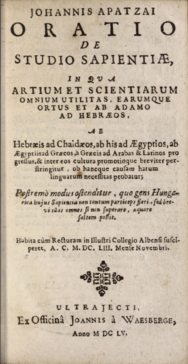 The cover of Oratio de studio sapientiae, access speeach of János Apáczai Csere in 1654 after being promoted as a magister of the Gyulafehérvár College